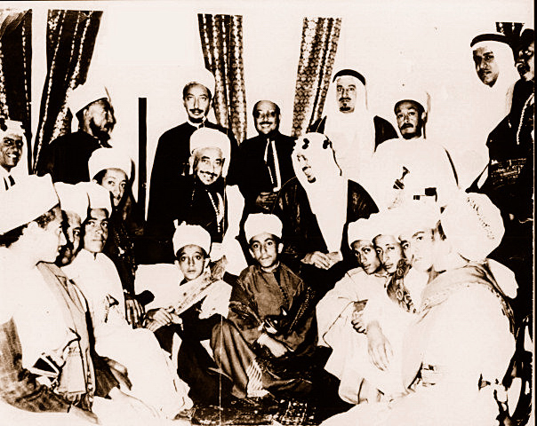 King Saud and Imam ahmed